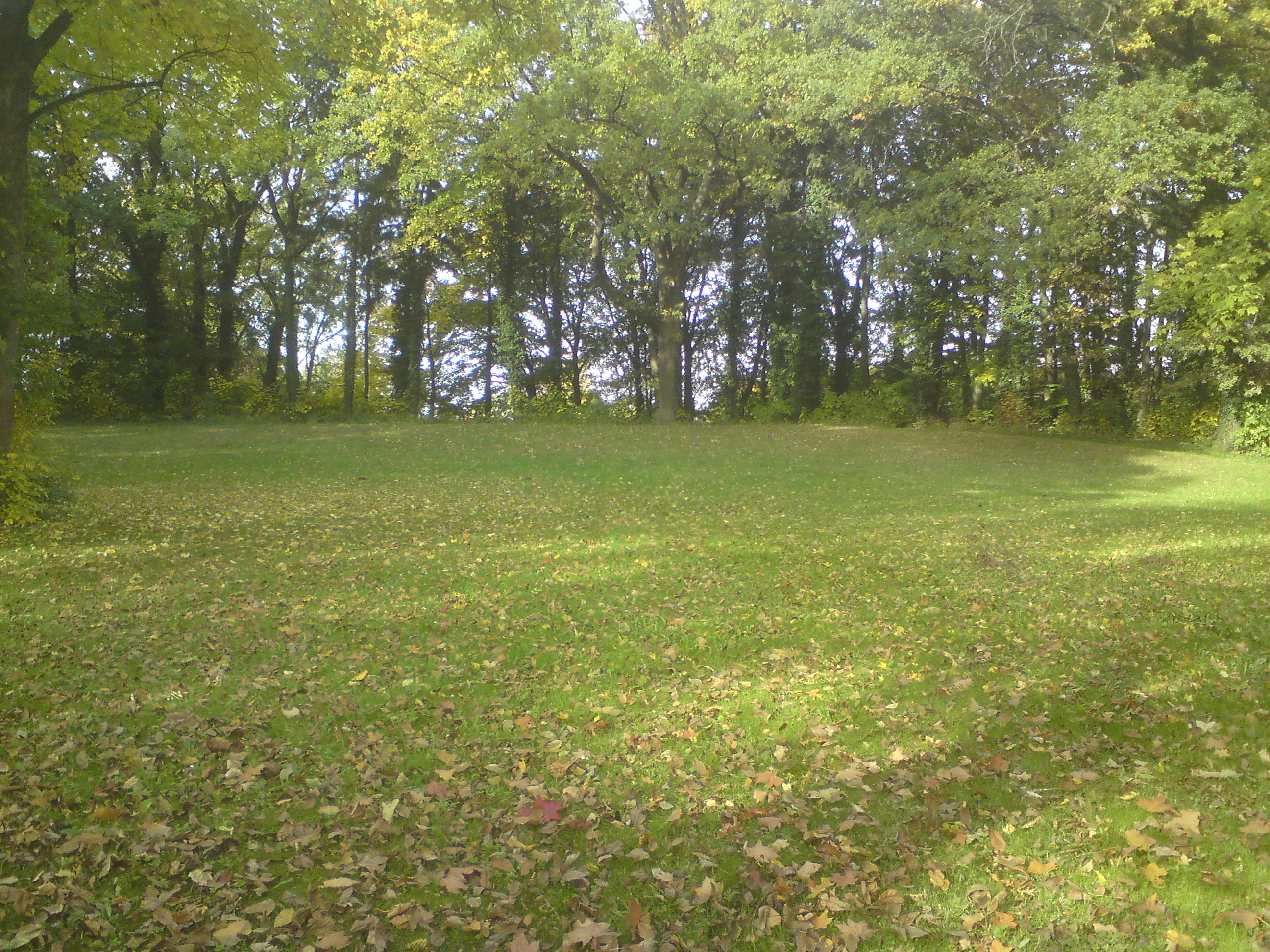 Schlossberg Boizenburg Germany